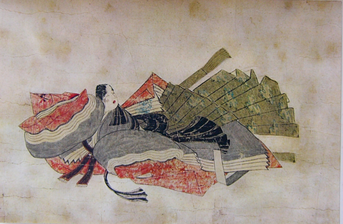 ISE, courtier and poet in 10th century, Potrait, A flagment of 36 poets scroll(SATAKE handscroll), colour on paper, mounted to hanging scroll, height 36.7cm, 13th century, Japan